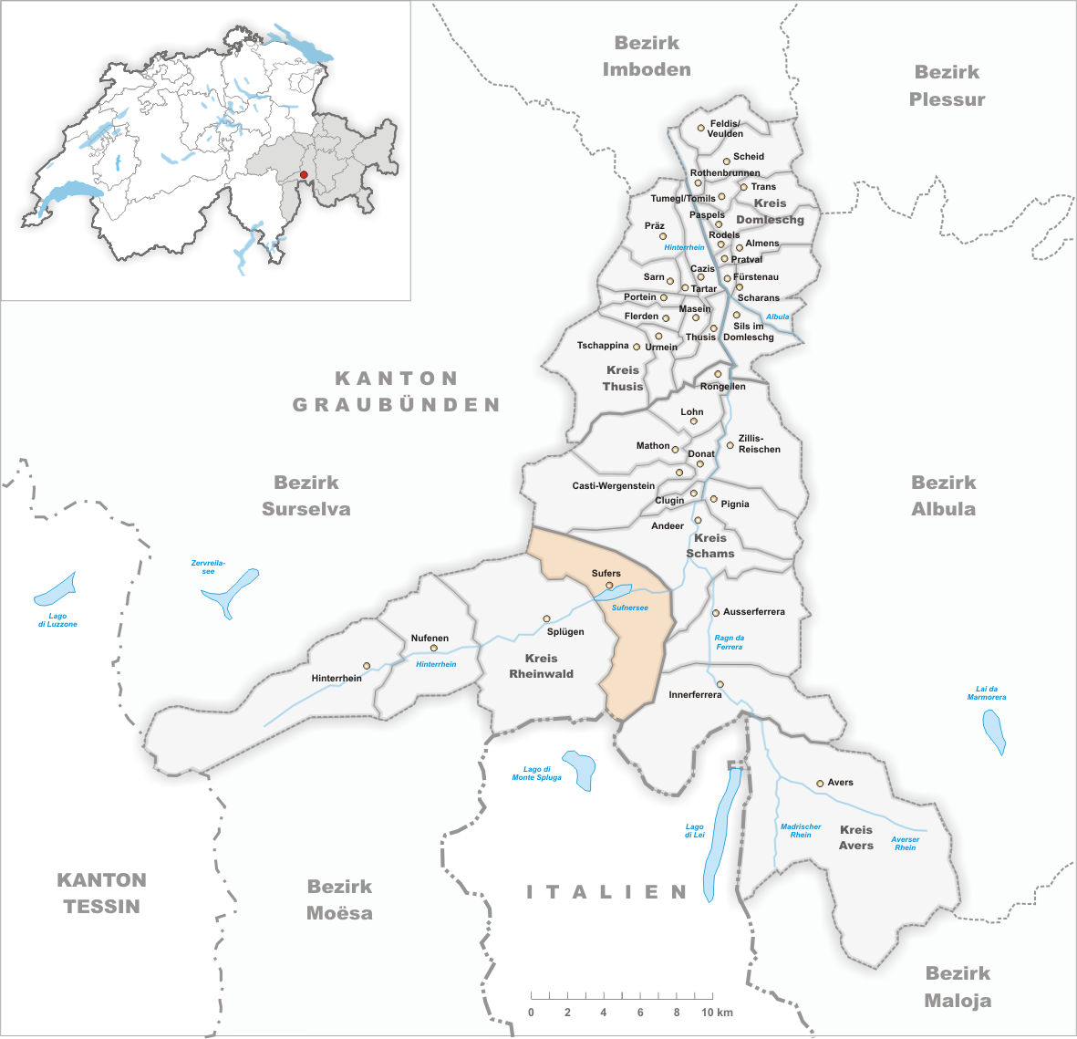 Municipality Sufers